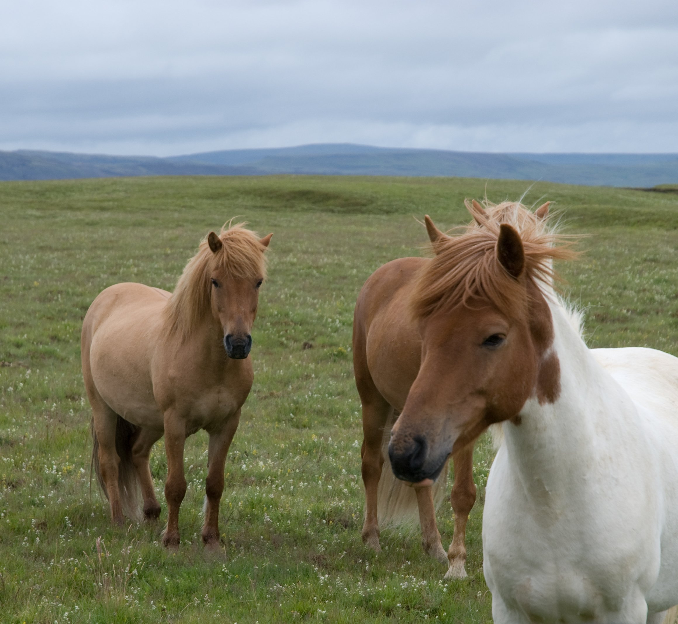 Iceland